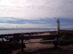 Lighthouse at Port Fairy, Victoria, Australia